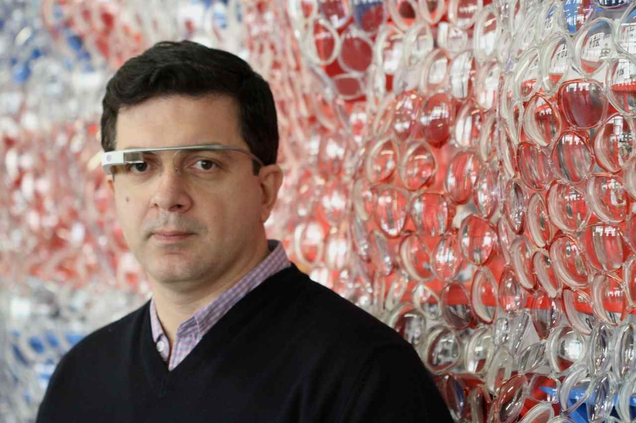 David Datuna, wearing a Google Glass device